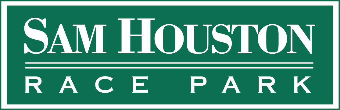 Sam Houston Race Park logo